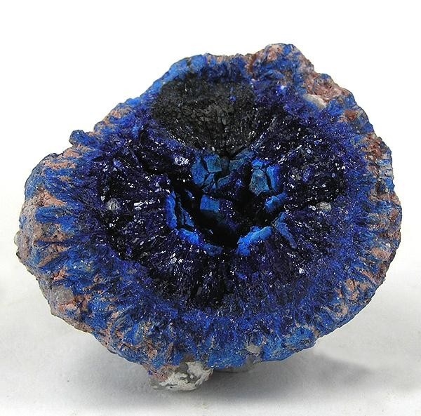 Azurite Locality: Blueball Mine, Globe, Globe Hills, Globe Hills District, Globe-Miami District, Gila County, Arizona, USA (Locality at ) Well, all jokes aside, I think from this specimen you can see why this mine was named the Blue Ball Mine. This is a wonderful azurite GEODE (yes, an azurite geode!) that came uniquely from this mine. The crystals grew radially towards the middle, where you can actually see terminations around the hollow at the very center. These are quite unique specimens! 3.4 x 3.3 x 1.8cm